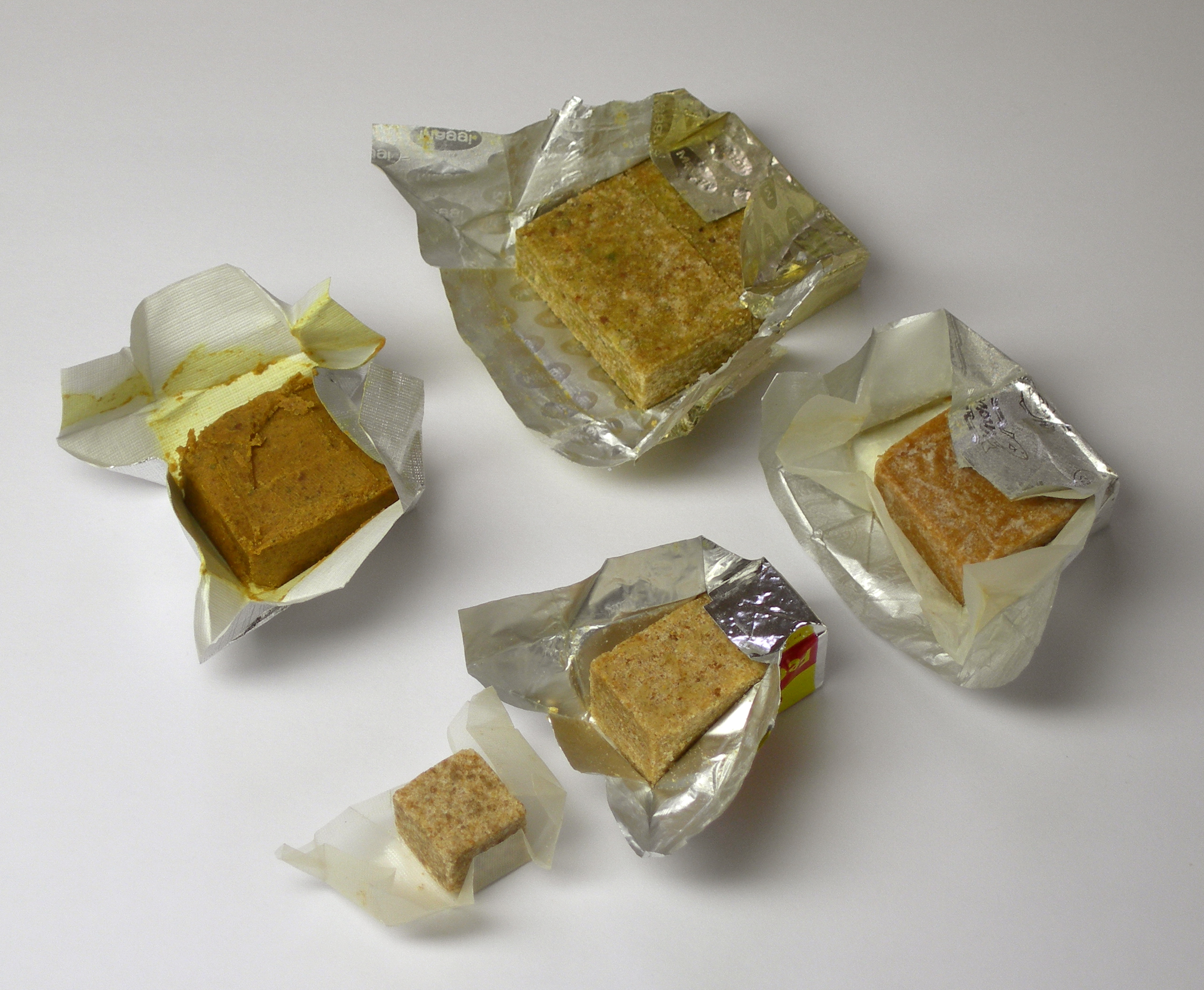 Various stock cubes.Starting with the nearest, counter clockwise:ordinary stock cube (Maggi), stock cube (Maggi), Fish stock cube (Knorr Spain), bouillon (Maggi), organic vegetable bouillon (Rapunzel).